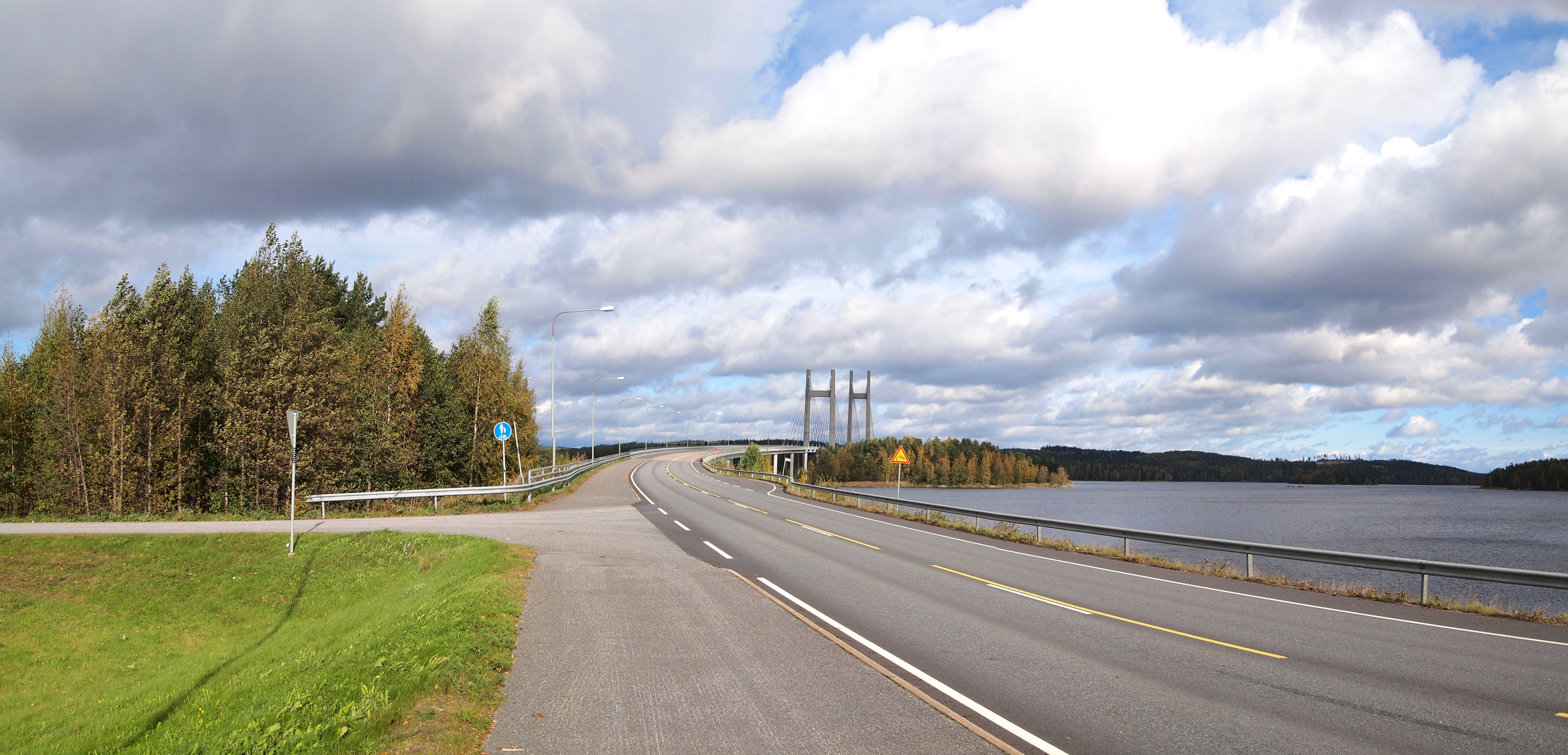 Regional road 610 (Vespuolentie) in Korpilahti, Jyväskylä, Finland. On the right is the lake Päijänne.